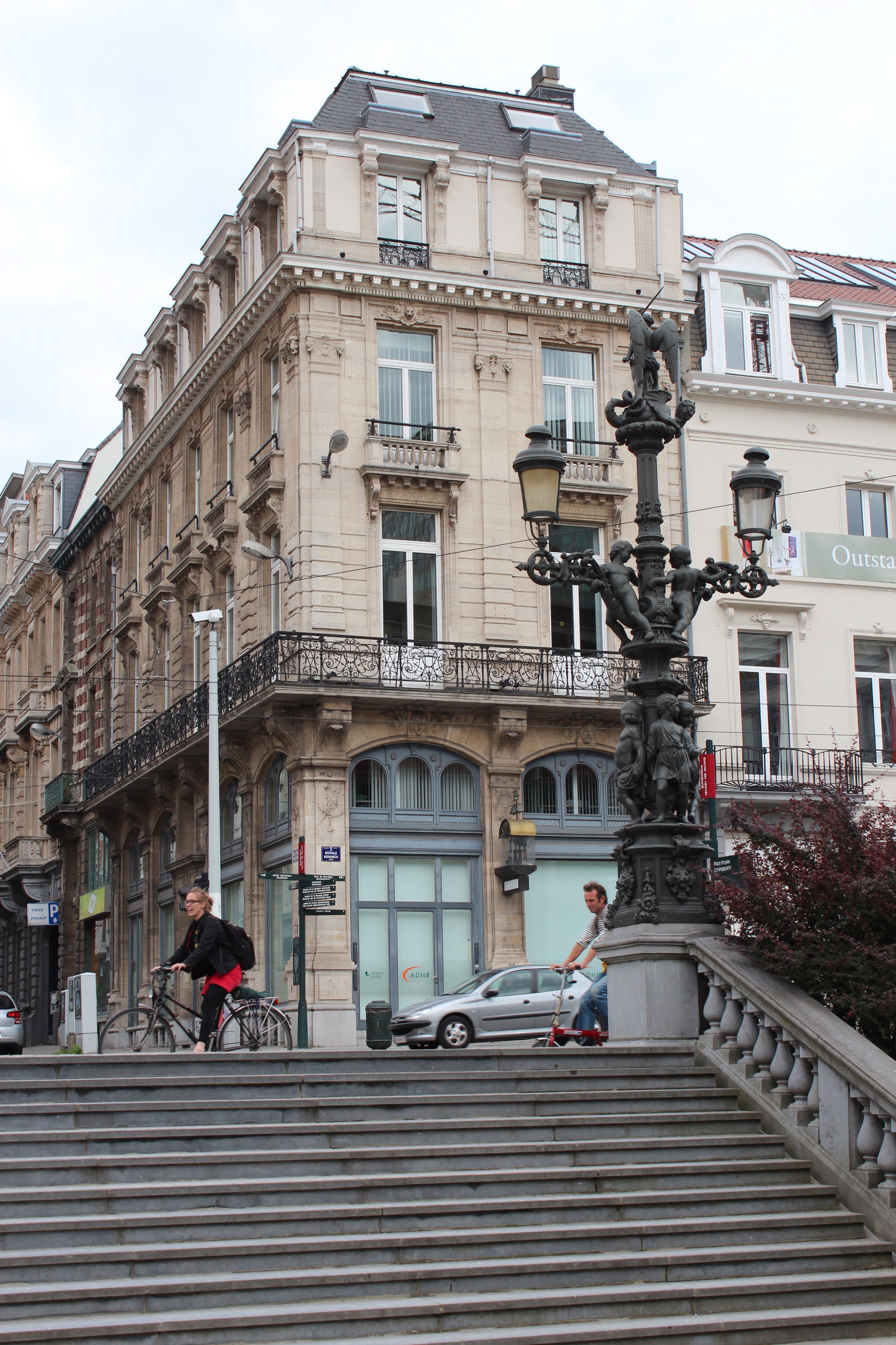 rue Royale 75-77- rue du Congrès 1-2 - Koningsstraat 75-77 - Congresstr. 1-2, Brussels